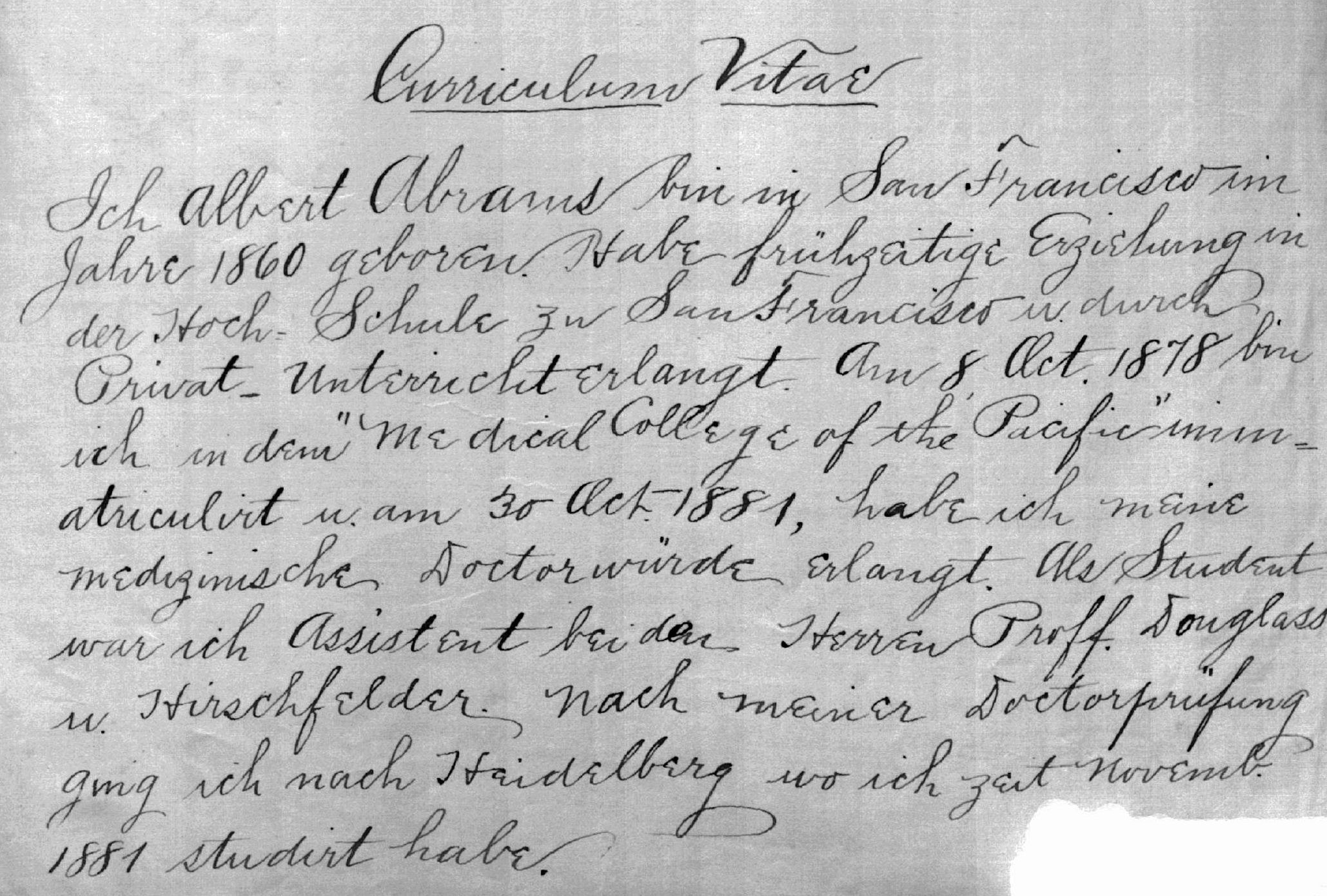 Curriculum Vitae I, Albert Abrams was born in San Francisco in the Year 1860. I was educated early in High School of San Francisco and by private tuition. On Oct. 8th 1878, I have been matriculated at the Medical College of the Pacific. On Oct. 30th 1881 I have obtained my doctor’s degree. As a student, I was an assistant of Prof Douglass and Hirschfelder. After my graduation, I went to Heidelberg, where I am still studying in November 1881.